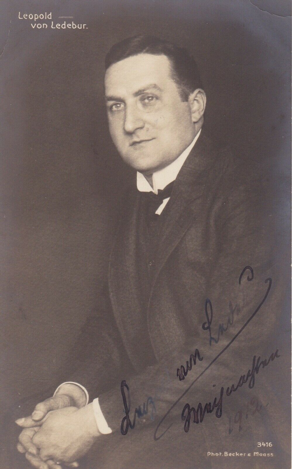 1912 (or earlier) Portrait (postcard) of German actor Leopold von Ledebur (1876–1955) by Becker & Maass, Berlin.